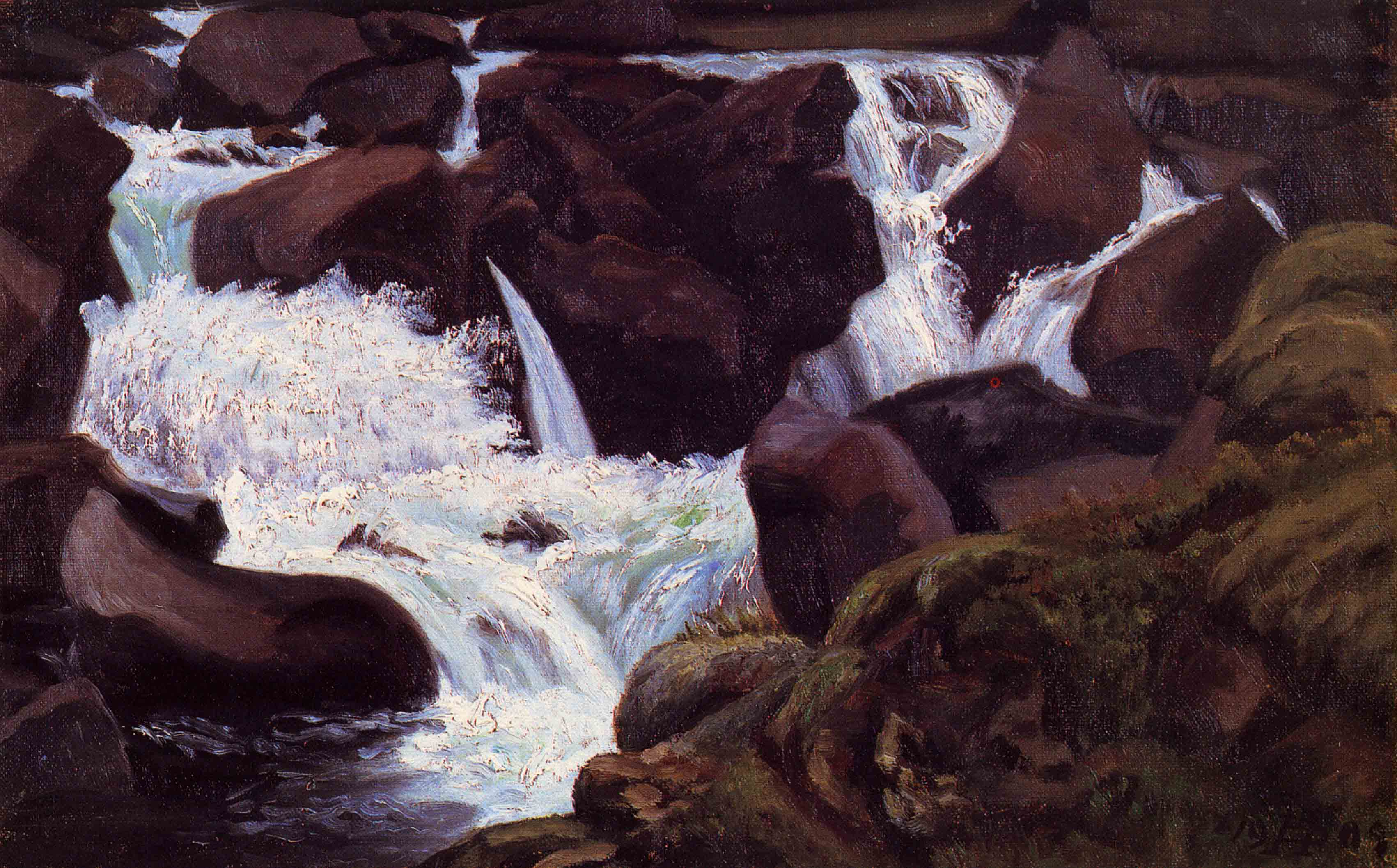 Foss (Waterfall) by Þórarinn B. Þorláksson (1867-1924). Made in 1909. Source and copyright Obtained from umm.is, an information portal about Icelandic artists. They don't specify where they obtained the image. Specific link: Note that even photographs which are not artworks have a copyright protection of 50 years from creation in Iceland. Thus it is not clear that this image is in the public domain in Iceland.